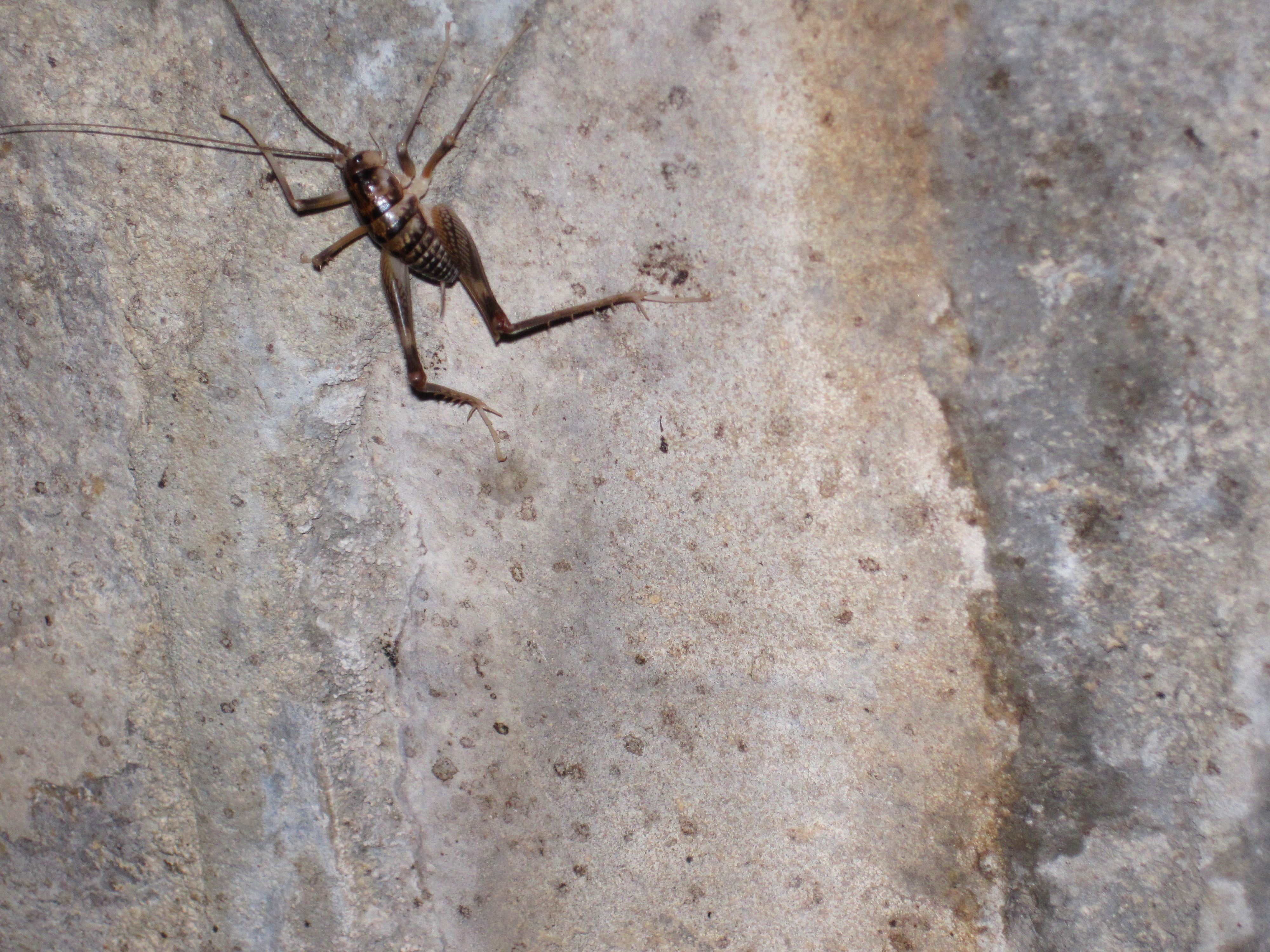 Ceuthophilus stygius (Scudder, 1861) - camel cricket inside the entrance to Great Onyx Cave. Great Onyx Cave is located in the northern part of Flint Ridge in Mammoth Cave National Park, Kentucky, USA. It has 8 miles worth of mapped passages. Geologically, Great Onyx Cave is part of the Mammoth Cave System, but it has become erosively separated from it (although an air flow connection with the Mammoth Cave System has been identified). Great Onyx Cave is the downstream continuation of the Salt Cave section of the system. The walls of Great Onyx Cave are limestones of the Paoli Member, shales of the Bethel Member, and limestones of the Beaver Bend Member of the Girkin Formation (lower Upper Mississippian). The travertine speleothem-rich areas of Great Onyx Cave are wet and occur where a cap of overlying Big Clifty Sandstone is absent. The dry portions of the cave are below an intact Big Clifty Sandstone "caprock", and include the giant canyon passage areas and the gypsum speleothem areas. The main cave passage of Great Onyx Cave is called Edwards Avenue. It is a giant canyon passage at Level B in the Mammoth Cave System. Level B passages formed about 2 to 4 million years ago during the Pliocene. This cave is sometimes accessible to the general public by guided lantern tours during boreal summer months. This photo was taken during a field trip in June 2011 as part of a cave geology course at Mammoth Cave park. Classification of camel cricket: Animalia, Arthropoda, Insecta, Orthoptera, Rhaphidophoridae